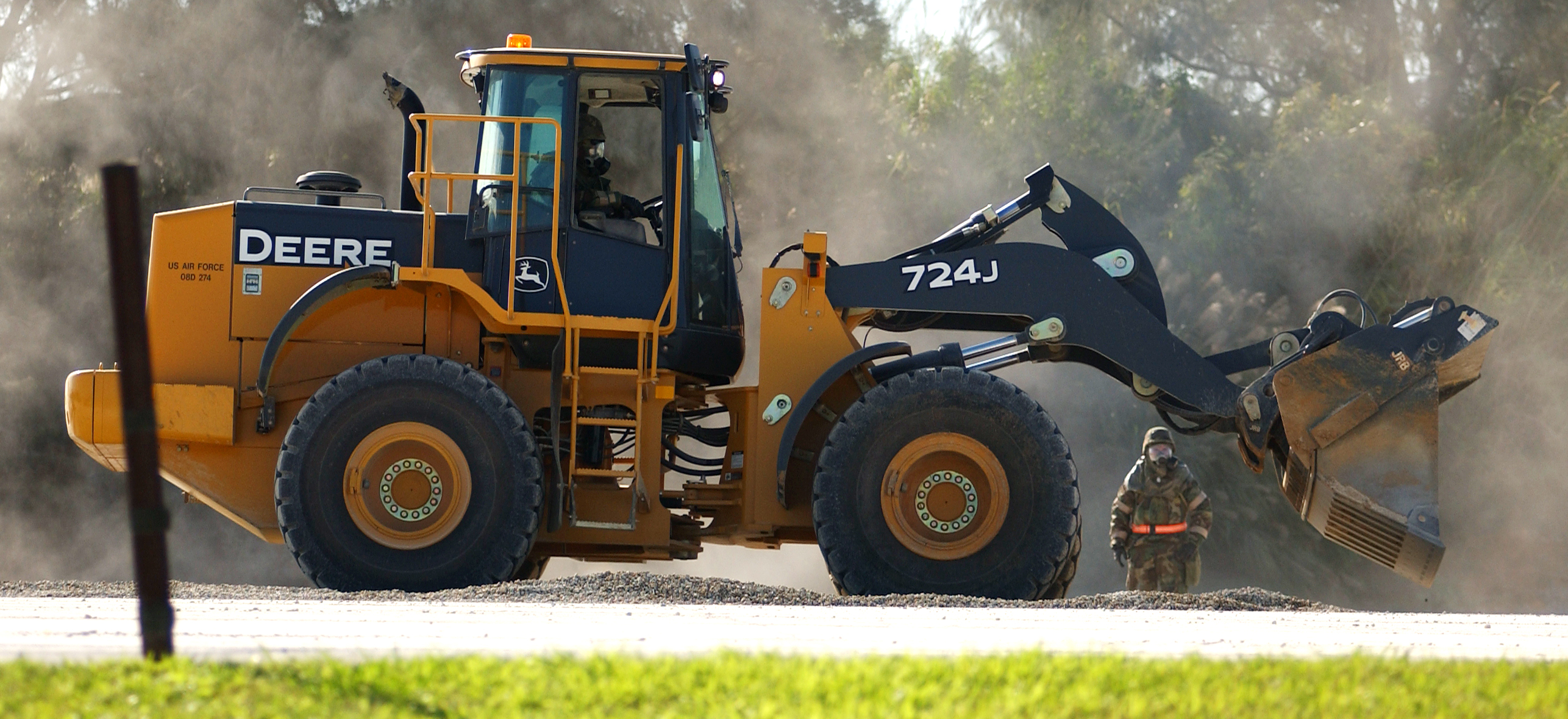 A John Deere loader 724J.